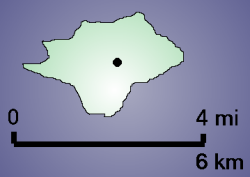 Rough map of Zavodovski Island